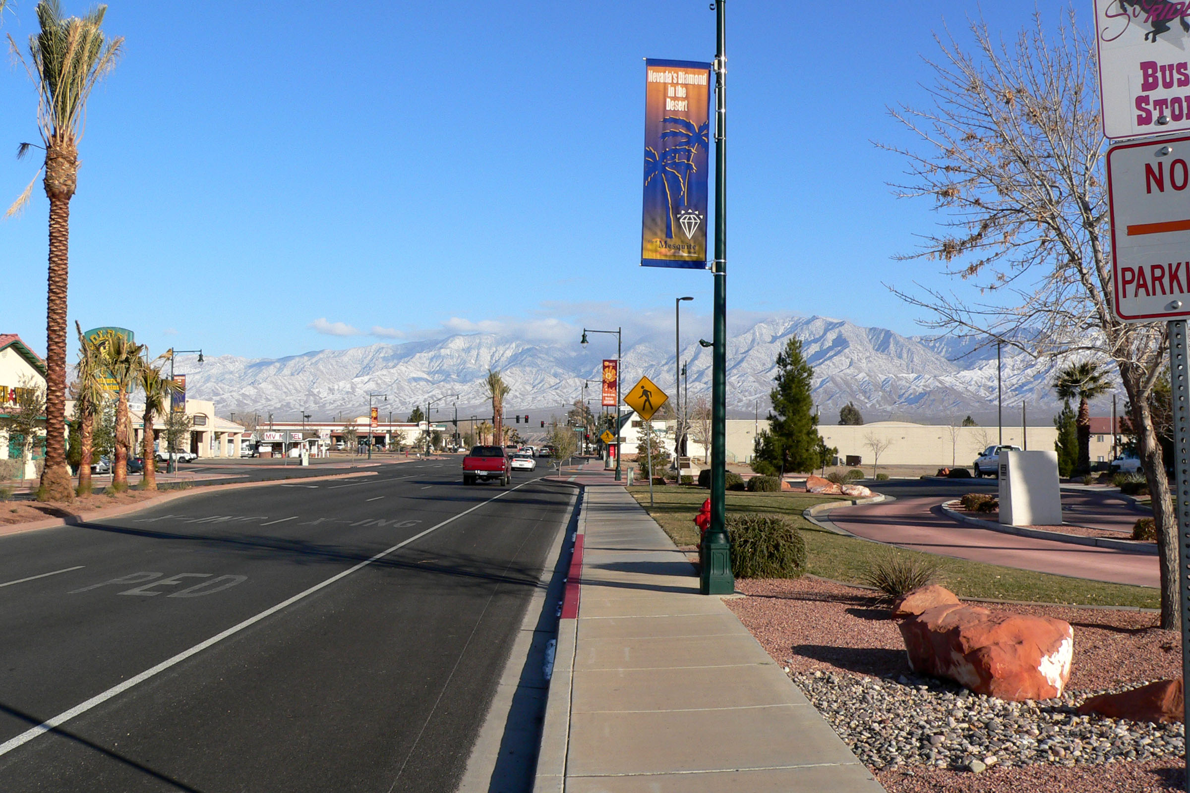 Street view near city hall, Mesquite, Nevada